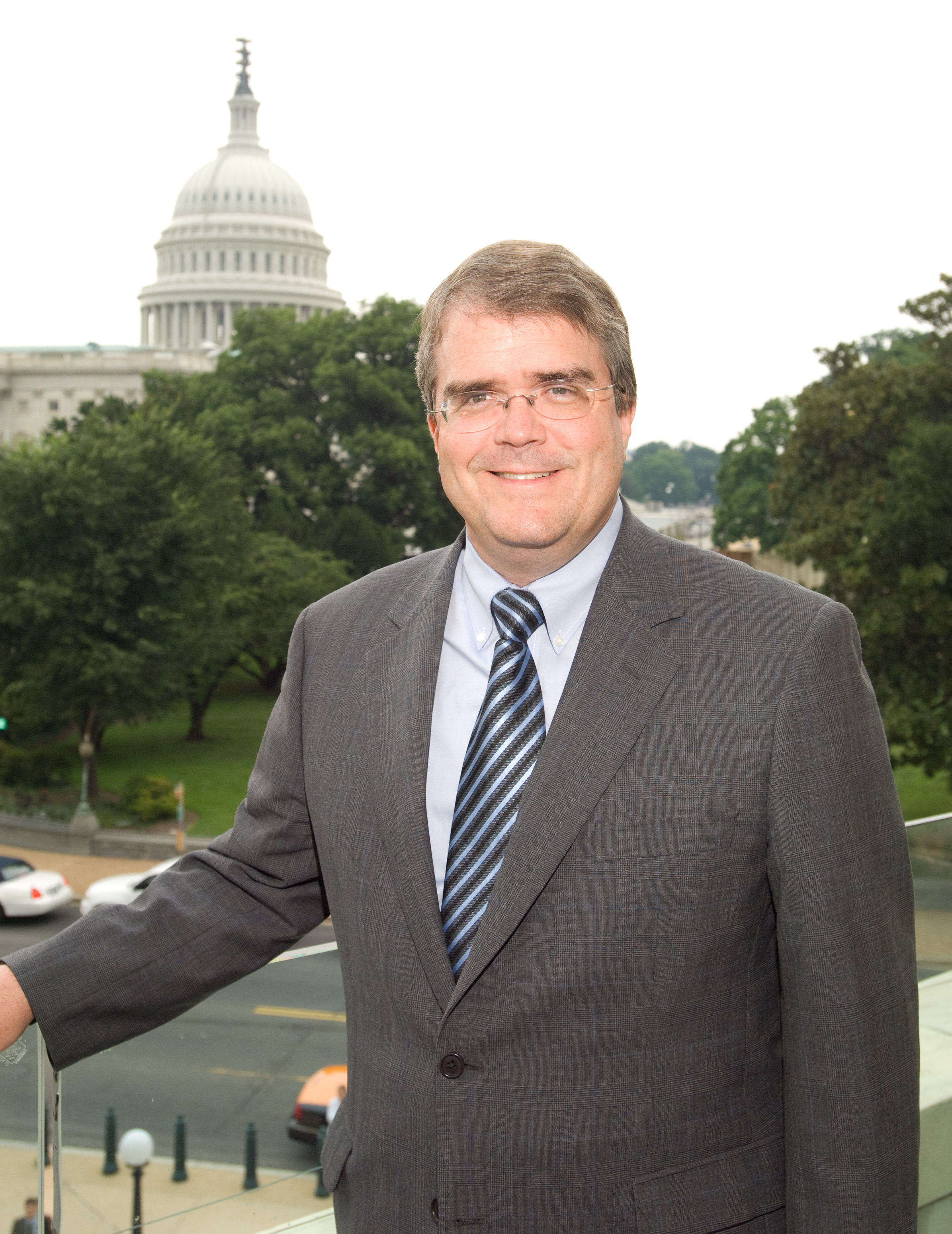 John Culberson photo, 2007